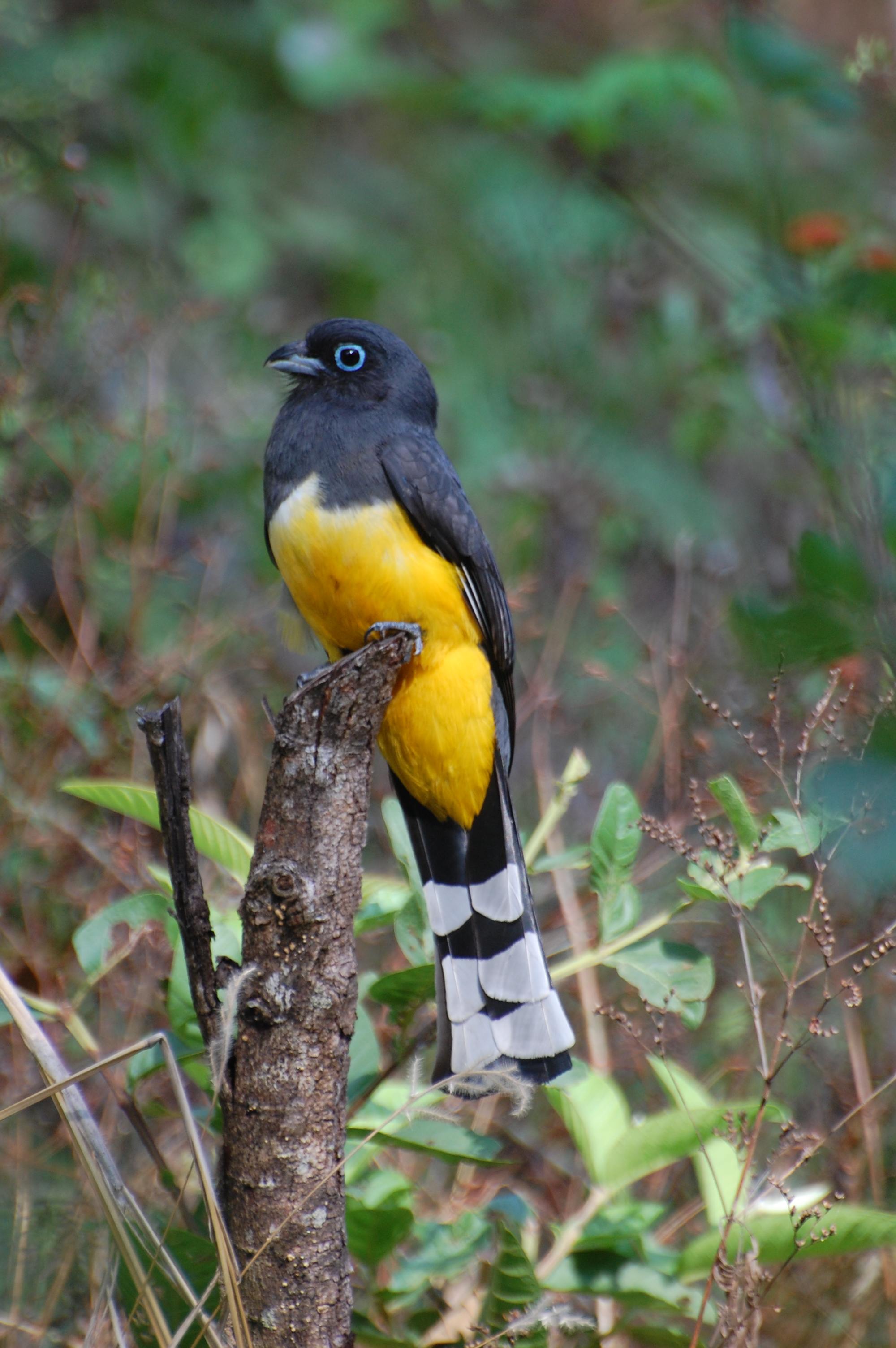 Black-headed Trogon Trogon melanocephalus, male, in Samara, Costa Rica